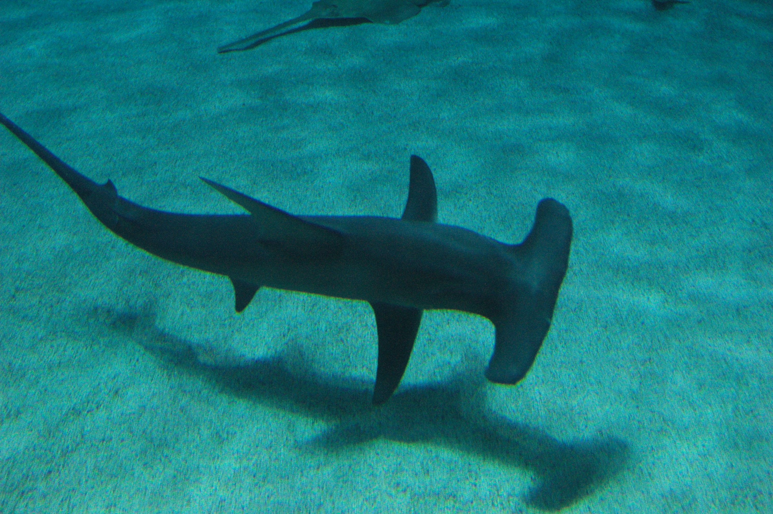 Great hammerhead (Sphyrna mokarran) at the Georgia Aquarium